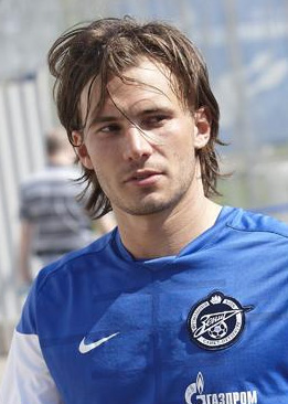 Hungarian midfielder Szabolcs Huszti